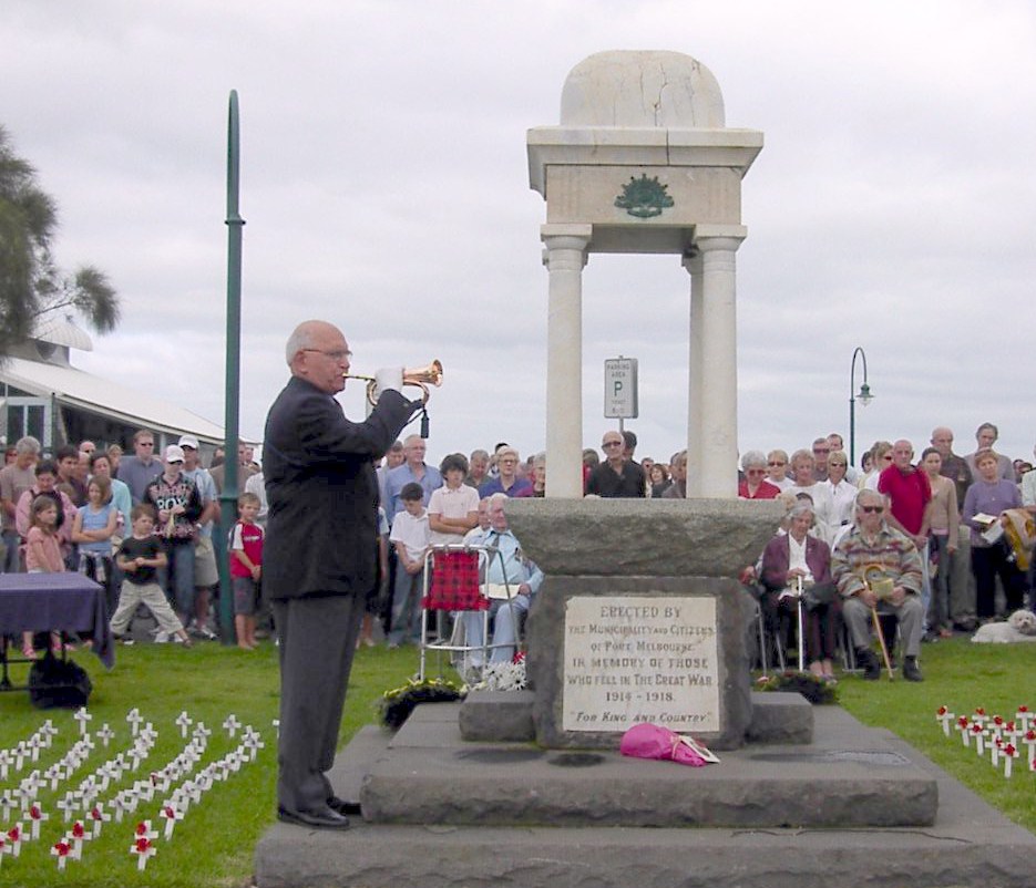 The Last Post is played at an ANZAC Day ceremony in Port Melbourne, Victoria.